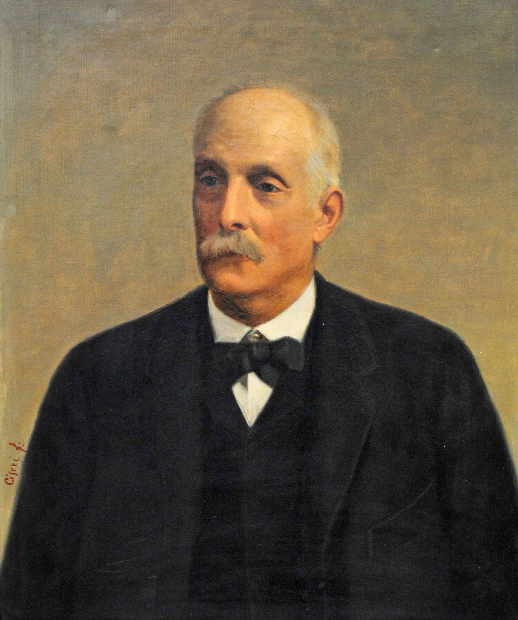 A portrait of Senator Piero Puccioni